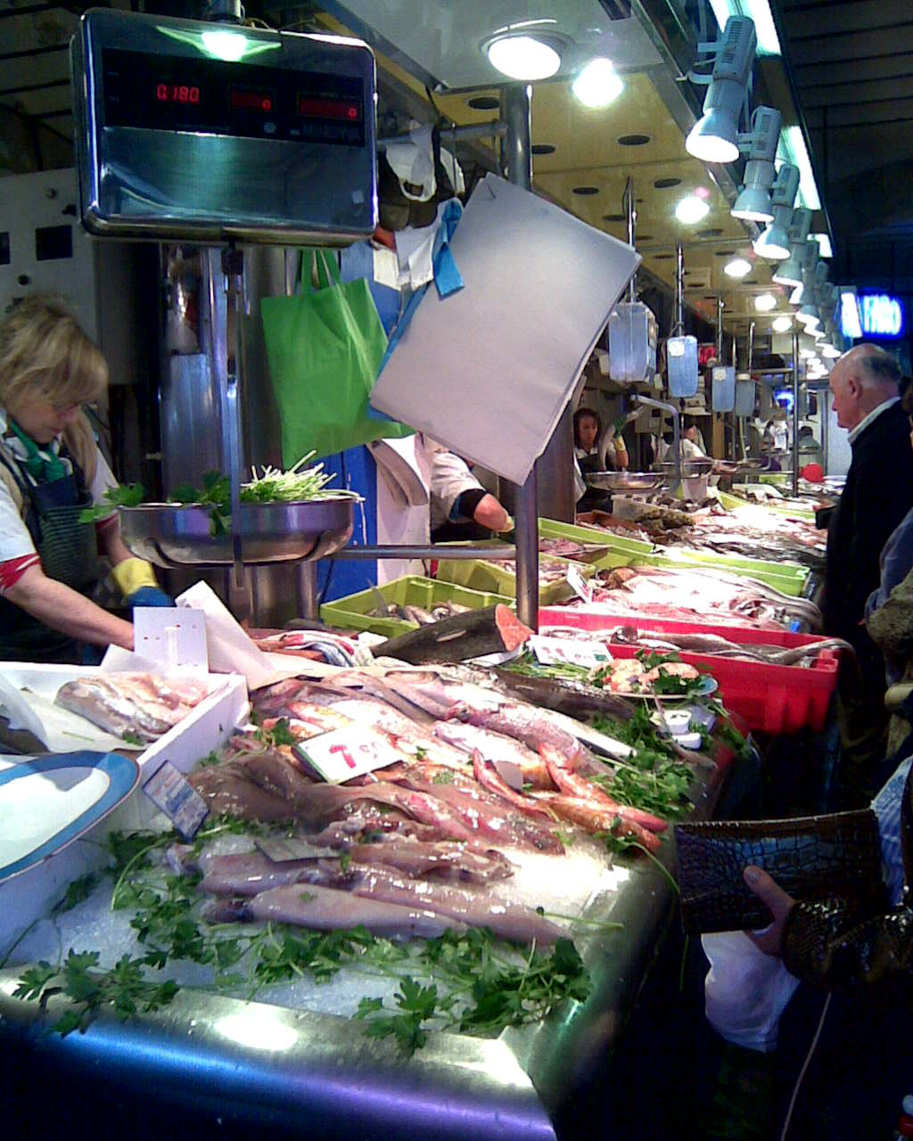 Fishmongers at La Esperanza Market (Santander, Cantabria)